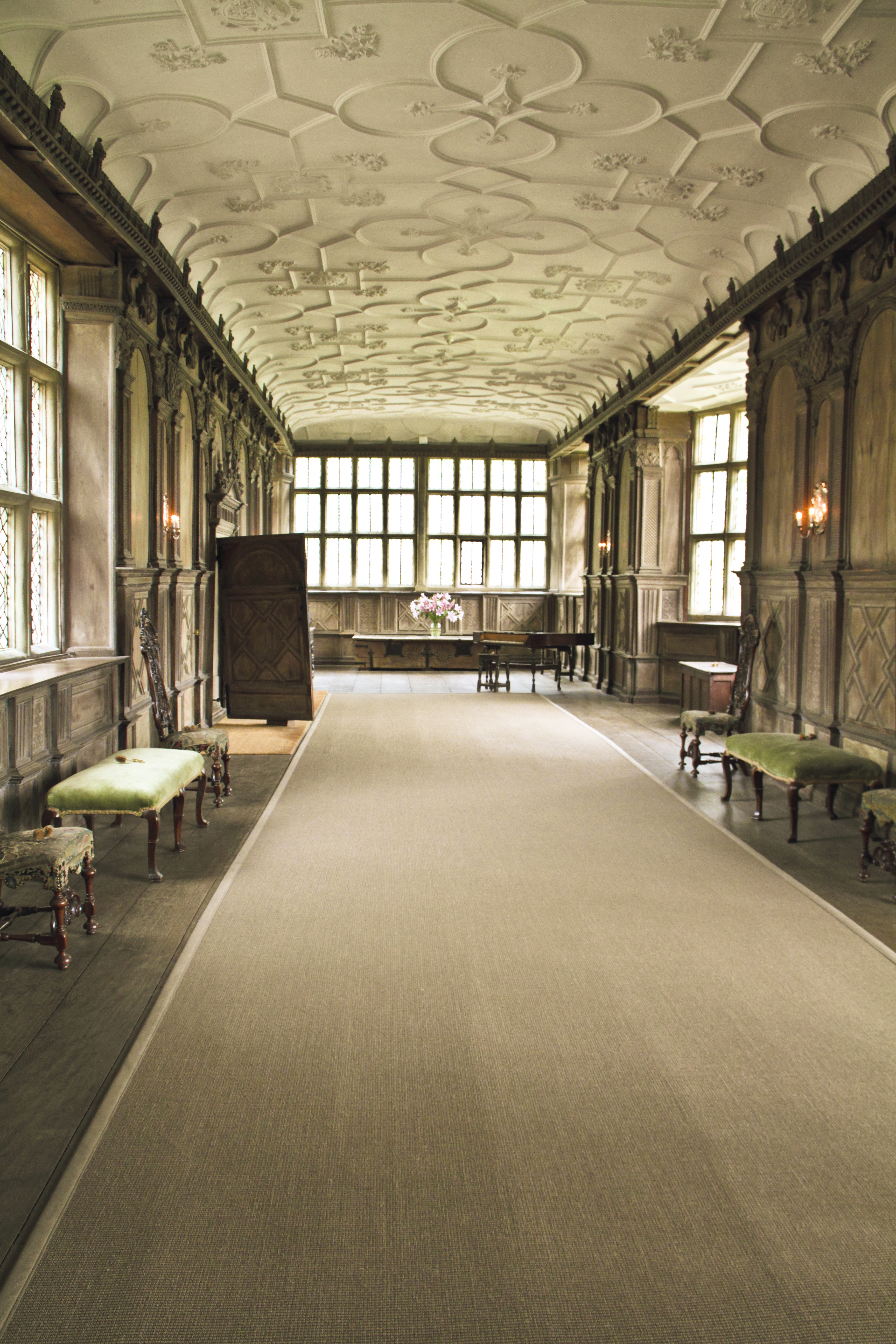 Here is a photograph of the Long Gallery inside Haddon Hall. Located in Bakewell, Derbyshire, England, UK. You CAN view and download the full 18megapixel image in Flickr, check out the other sizes when viewing***